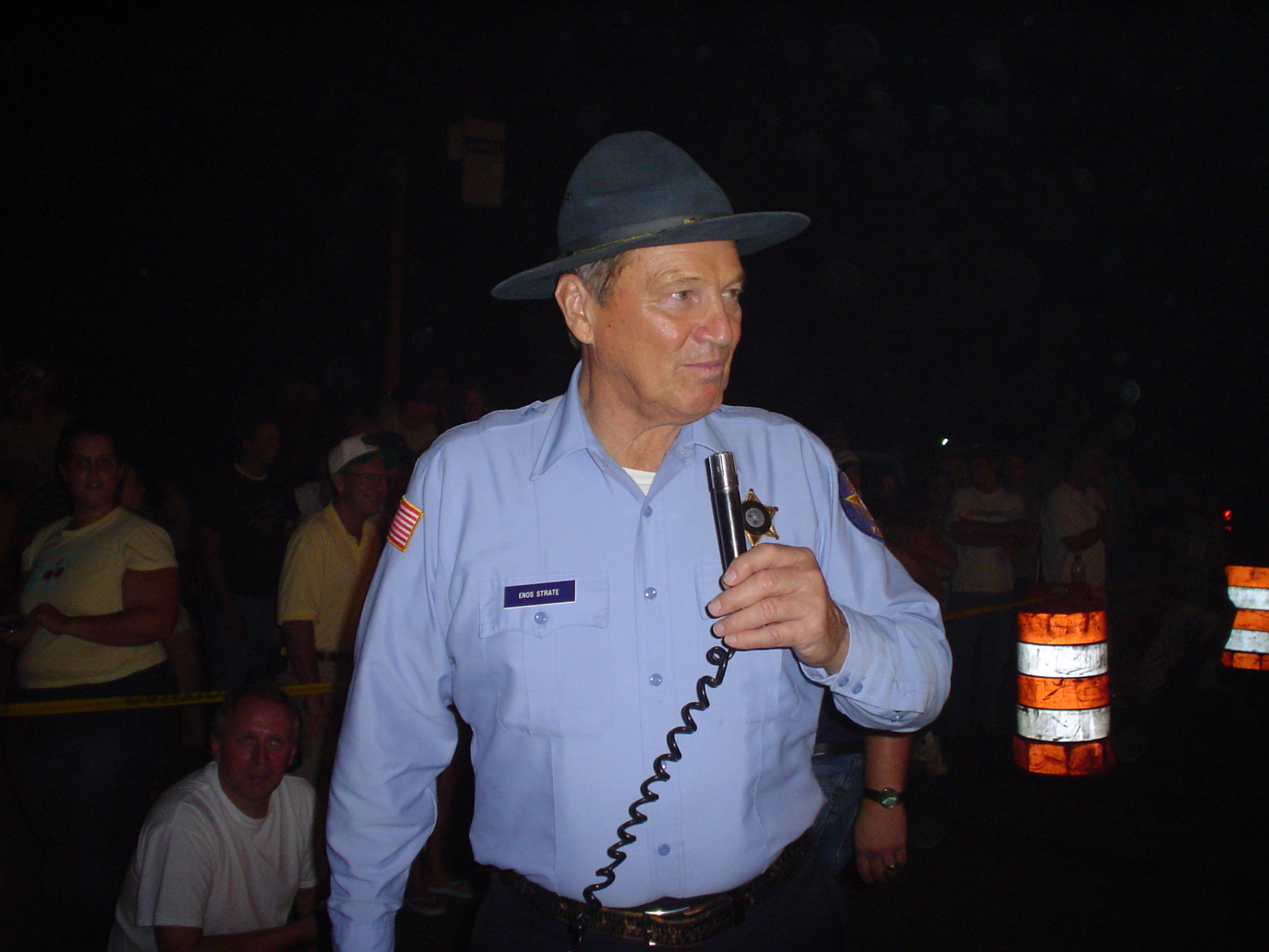 Sonny Shroyer at an event in North Carolina